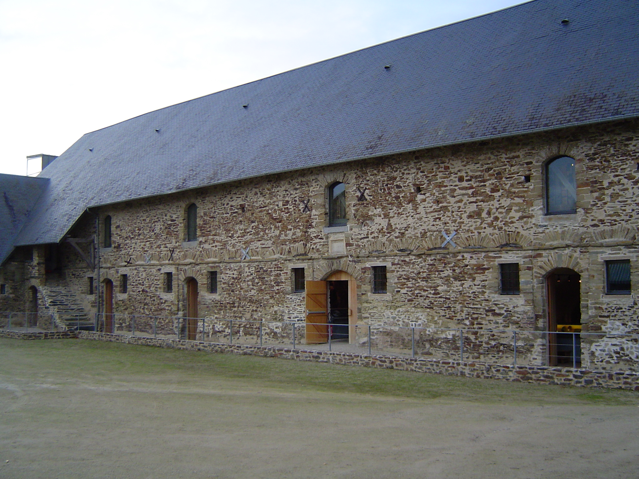 a hedged farmland's musee